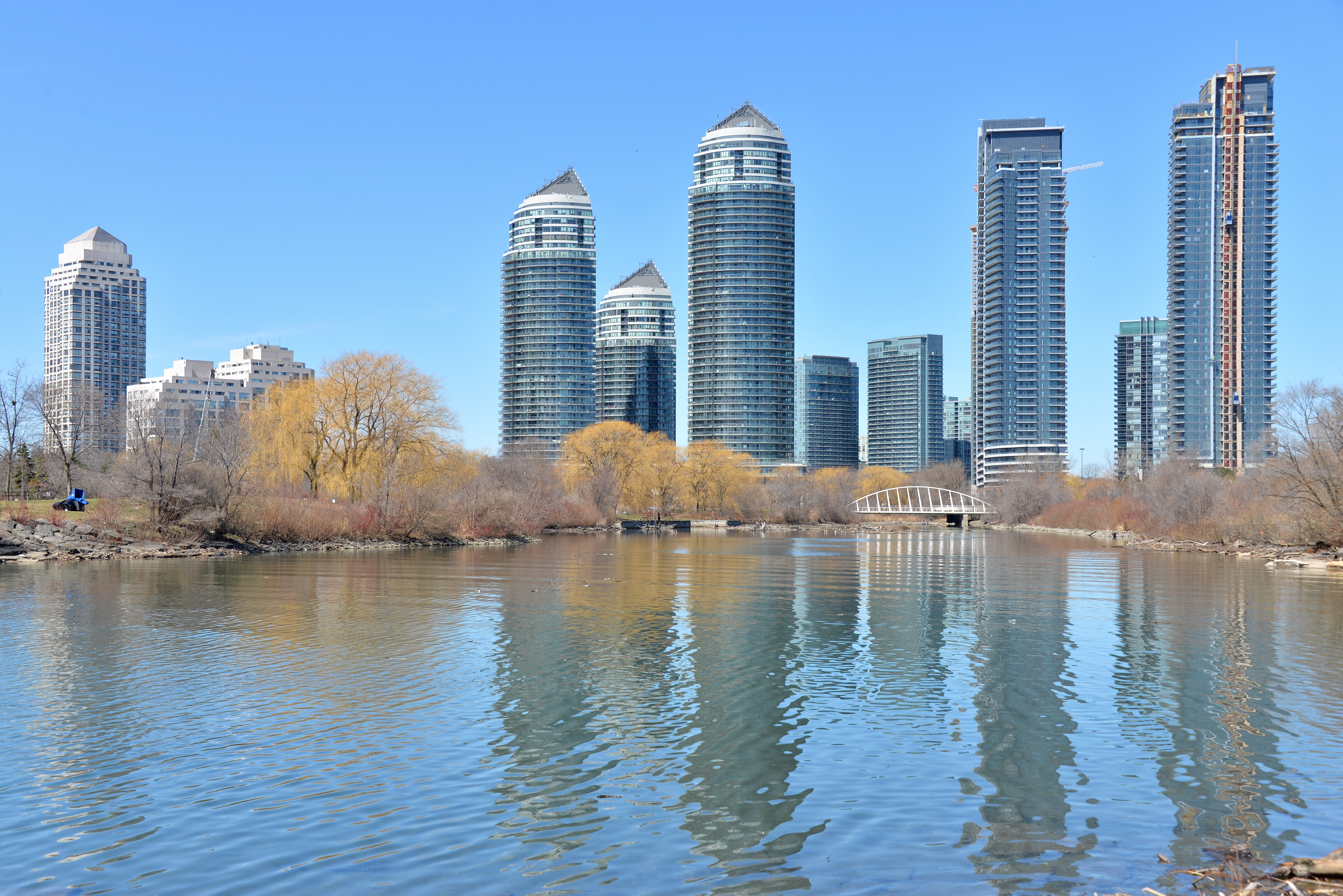 Humber Bay Park East on the shore of lake Ontario by the mouth of Humber river in Toronto, Ontario with apartment buildings in background